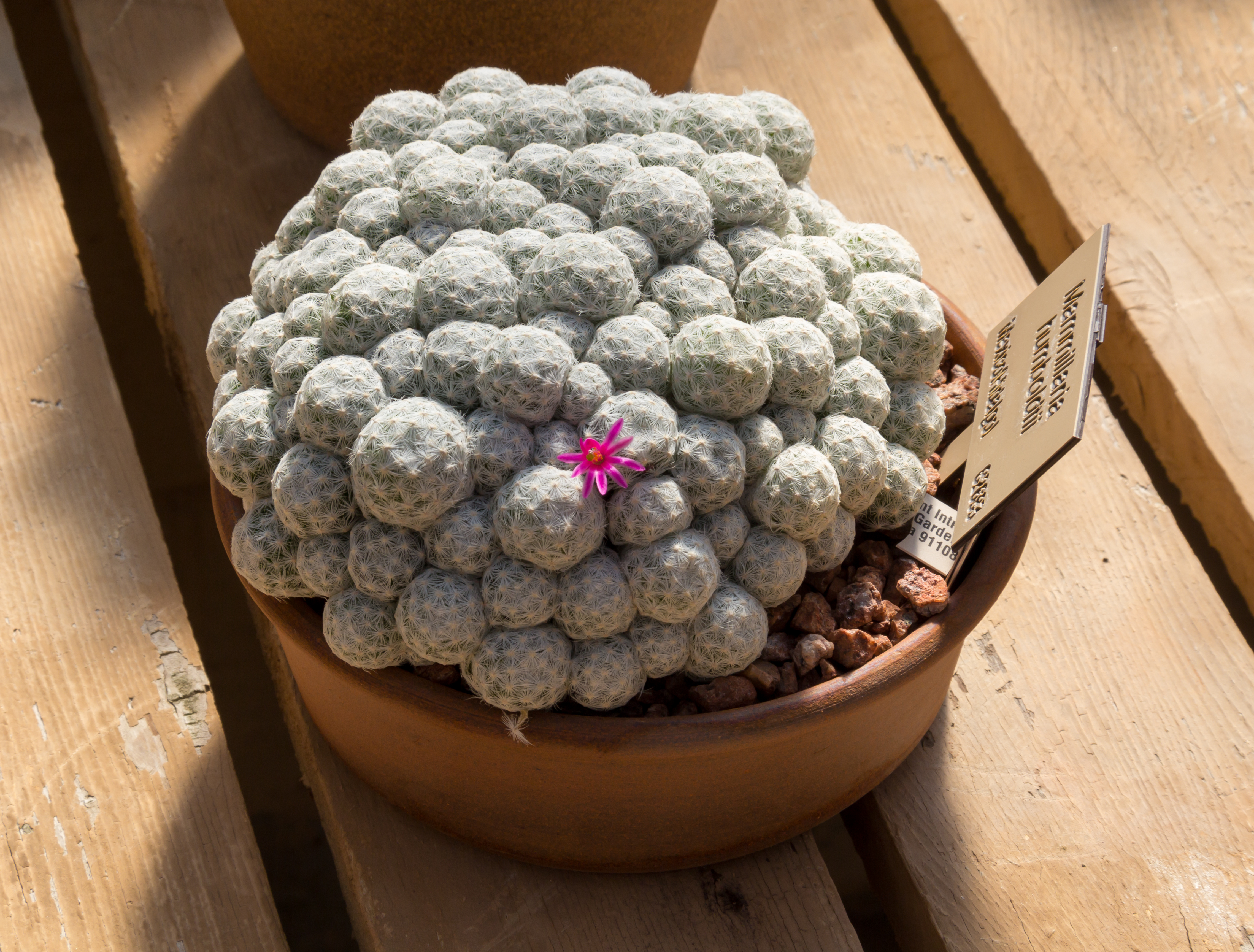 Mammillaria humboldtii. Mexico (Hidalgo). At Huntington Library, Art Collections and Botanical Gardens.